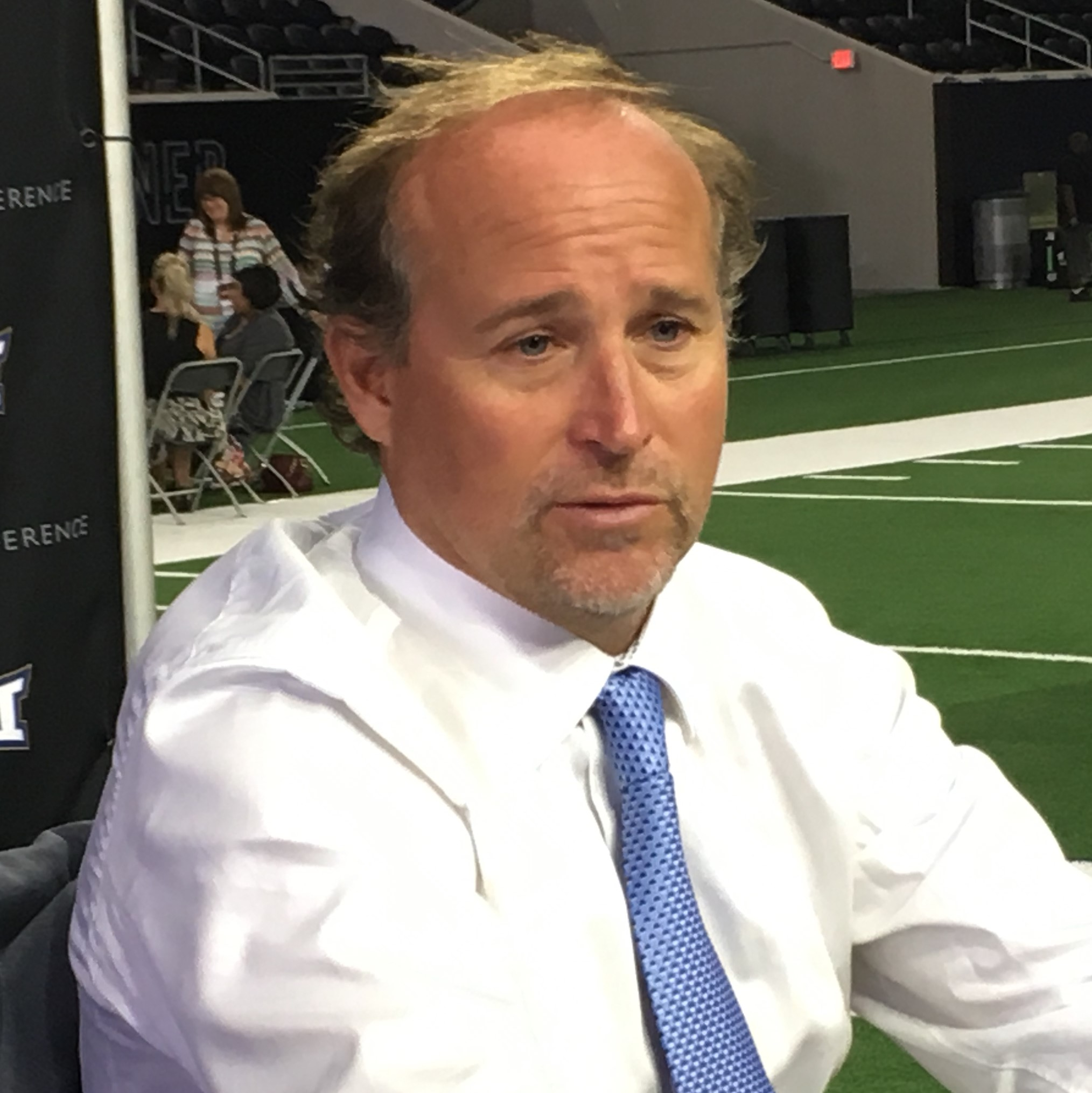 Dana Holgorsen, head coach of the West Virginia Mountaineers football team, at the 2017 Big 12 Conference Media Days in Frisco, Texas.